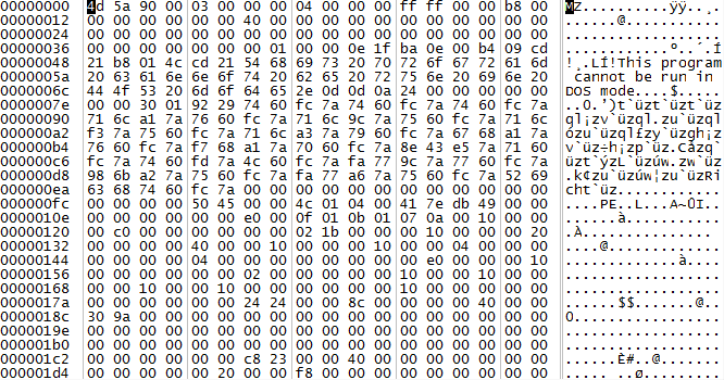 Screenshot of Frhed, a GPLed hex editor ( The open file is itself.